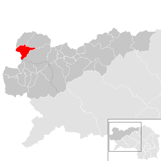 District Leoben